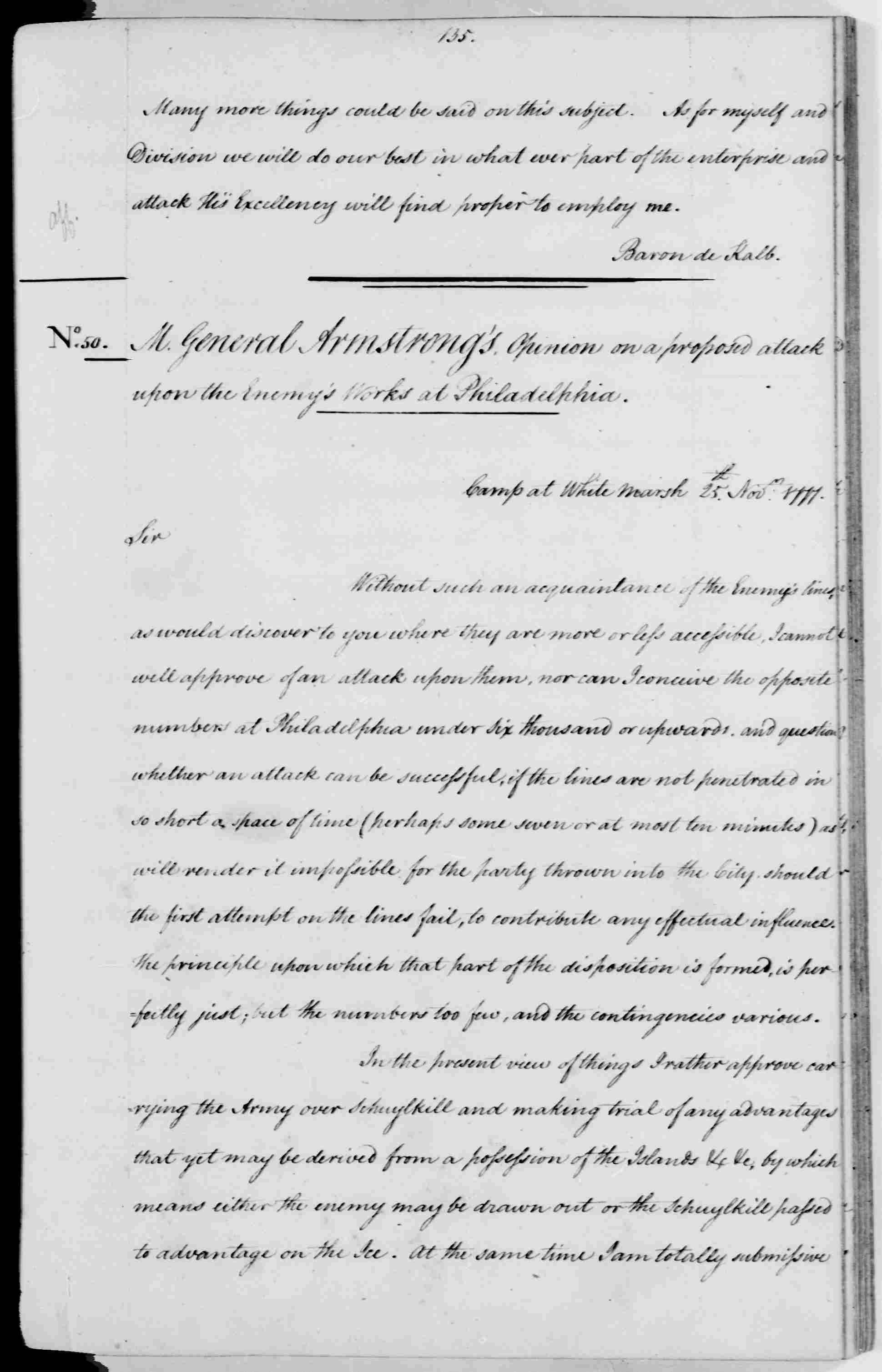 Letter from General John Armstrong, Sr., of the Pennsylvania militia forces to General George Washington expressing Armstrong's opinion of the proposed attack on British forces at Philadelphia, November 25, 1777. George Washington Papers, Series 3f, Varick Transcripts, The Library of Congress, Washington, D.C.